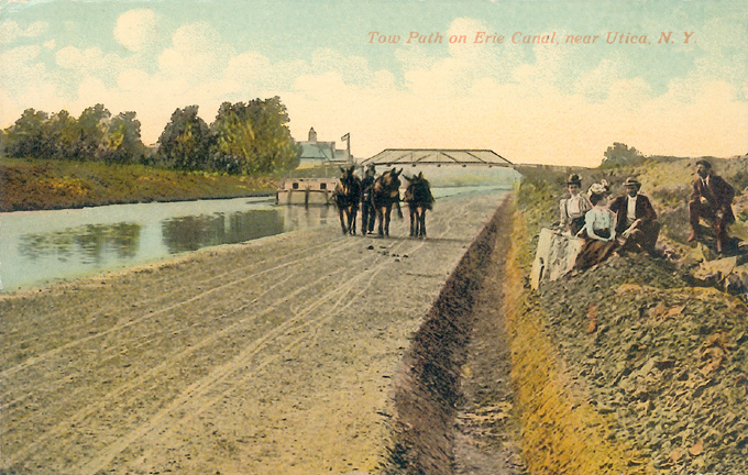 Postcard of Tow Path near Utica on the Erie Canal.